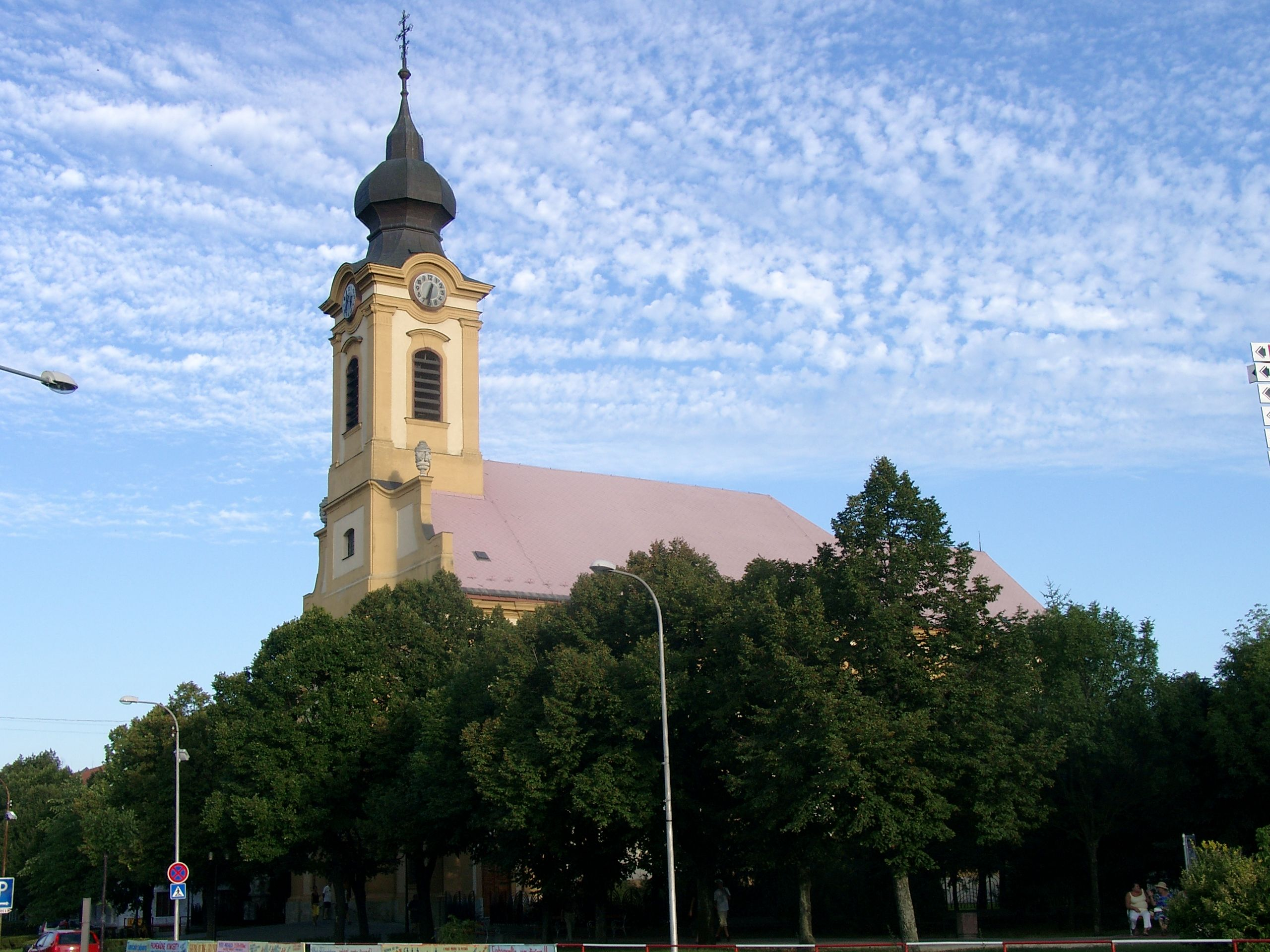 church in the middle Sereď